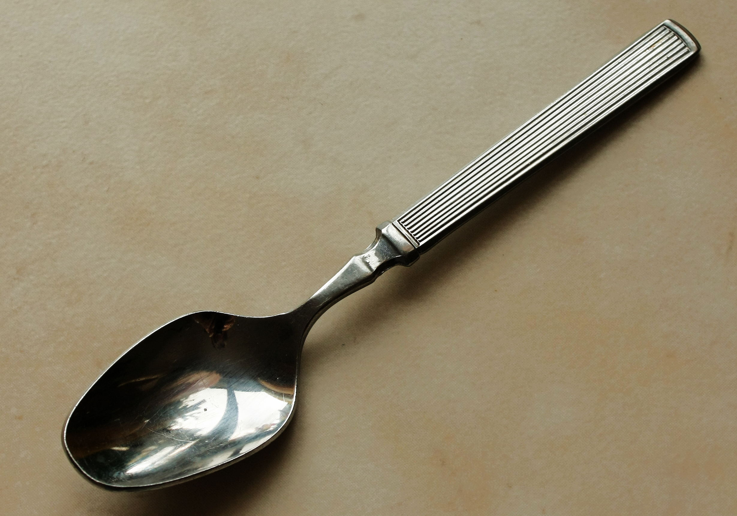 tea spoon